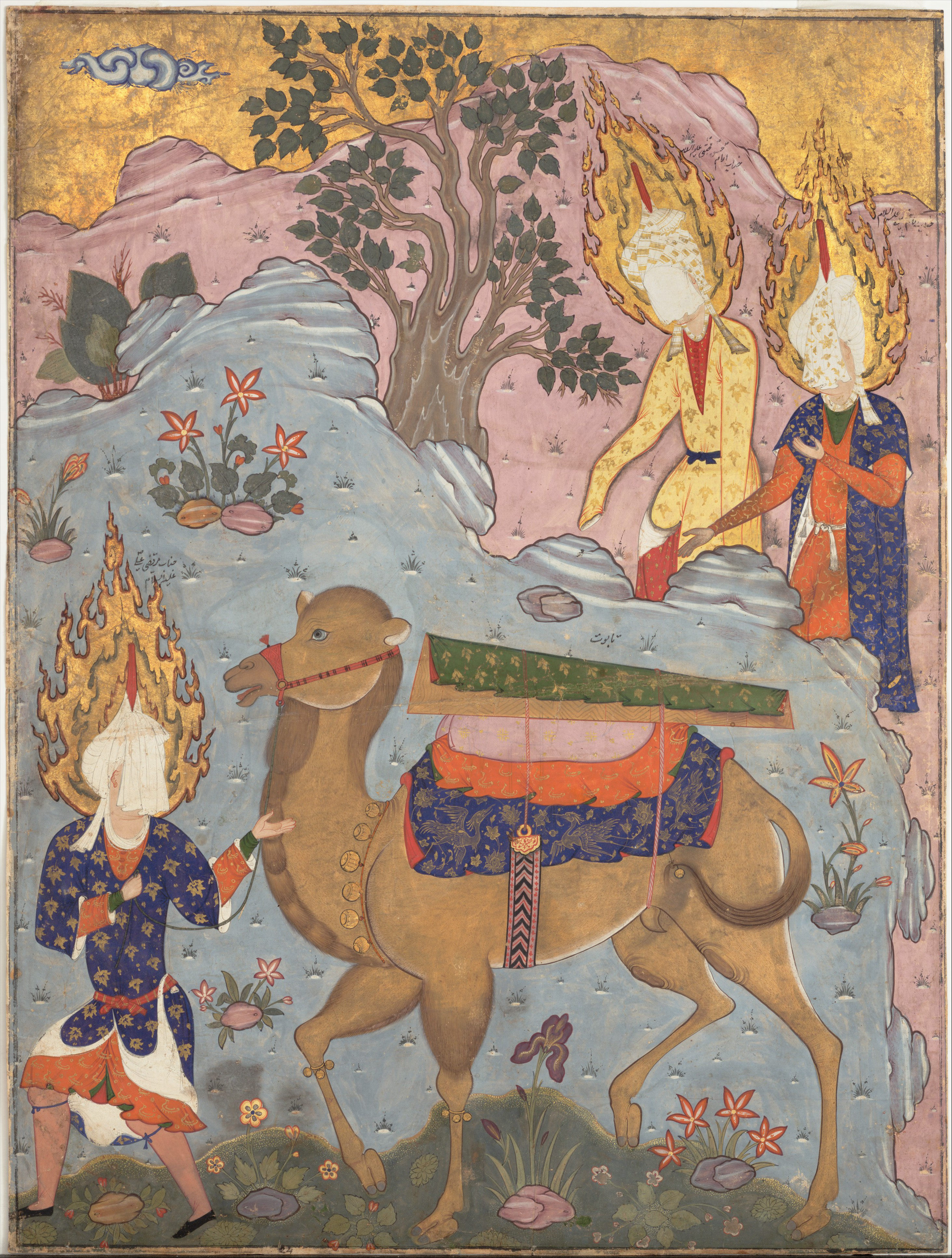 Folio from an illustrated manuscript; Codices